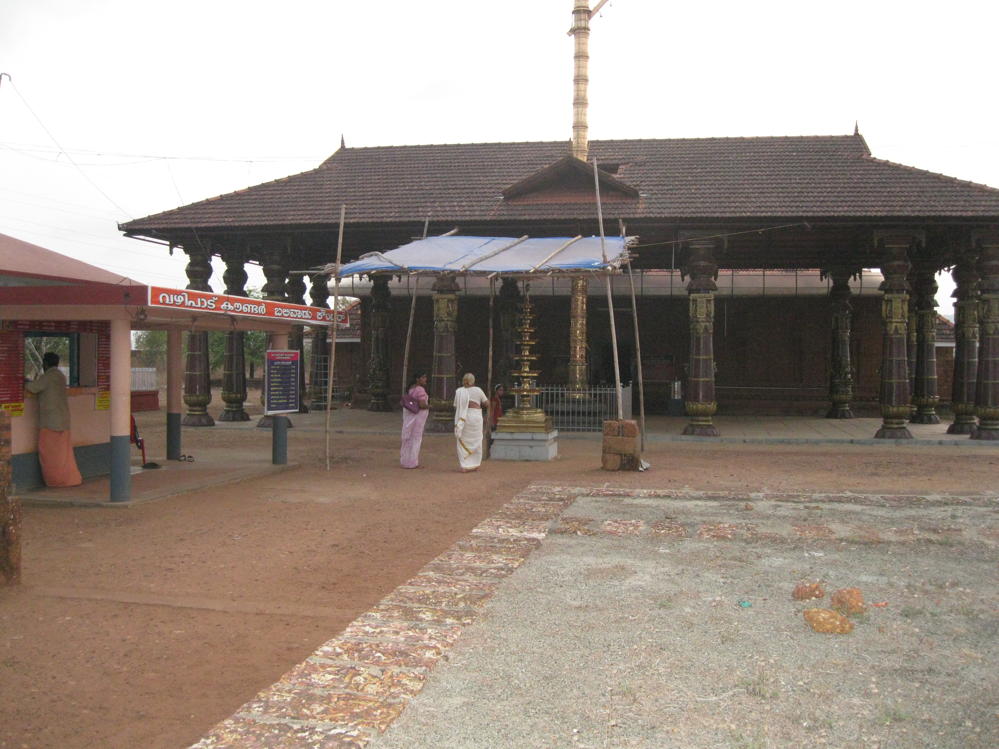 madayipara